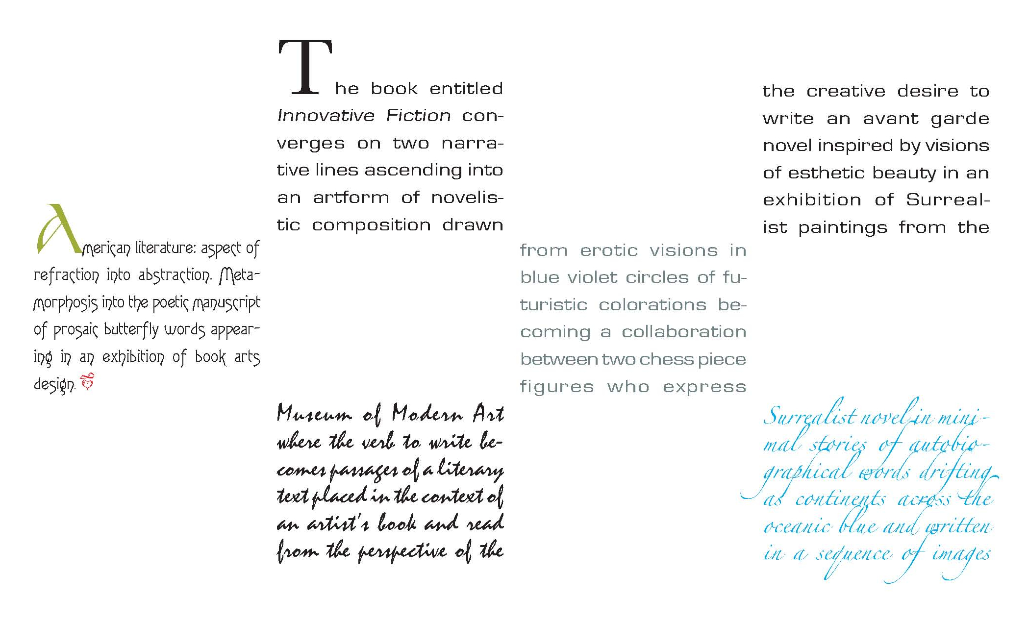 First page of the novel by David Detrich, Born 1952, Chicago, IL